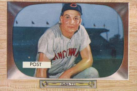 1955 Bowman baseball card of Wally Post of the Cincinnati Reds #32. PD-not-renewed.